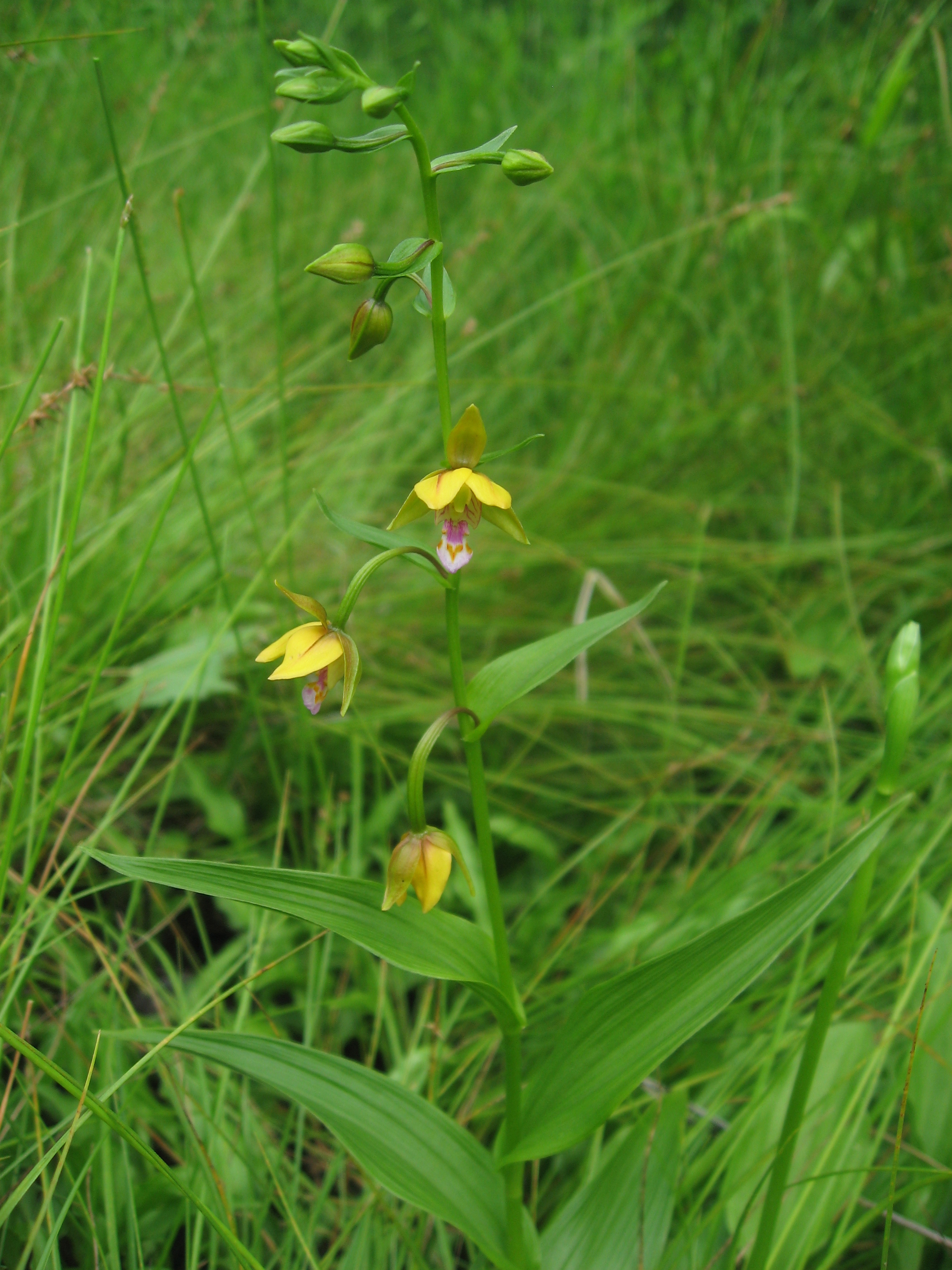 Epipactis thunbergii, Aizu area, Fukushima pref., Japan